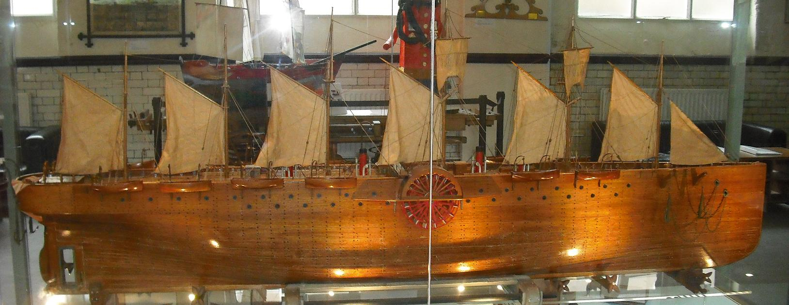 James Henry Pullen's model of SS Great Eastern on display at the Langdon Down Museum in Teddington, Middlesex, England.